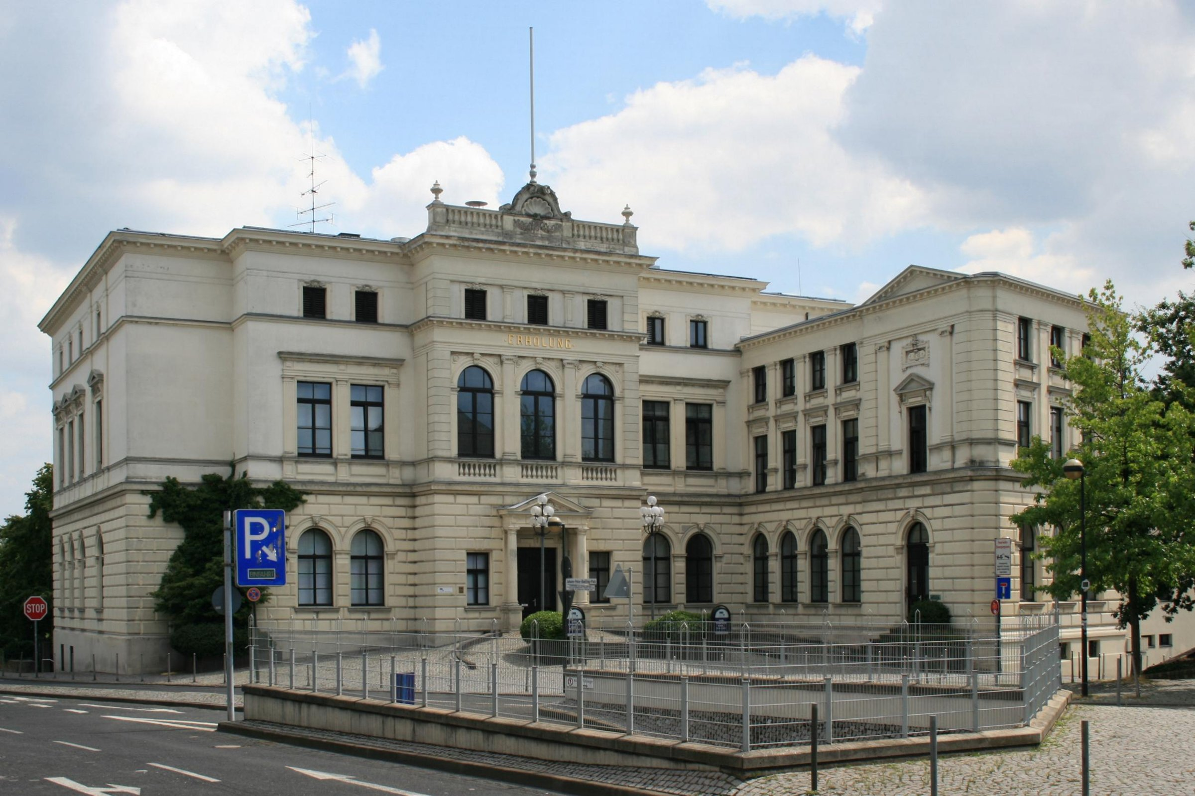 Cultural heritage monument No. J 004 in Mönchengladbach